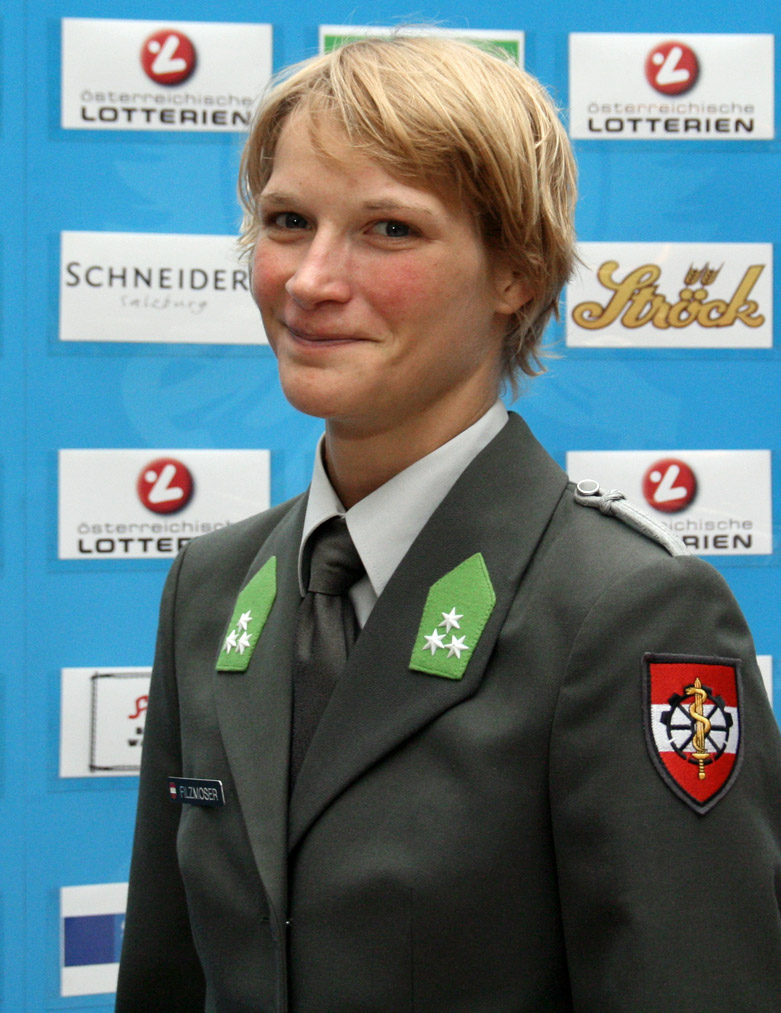 Judoka Sabrina Filzmoser at the hand-out of the Austrian teams official attire for the 2012 Summer Olympics in London (Marriott, Vienna).